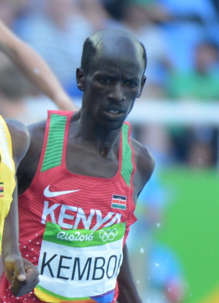 Ezkiel kemboi during the 2016 Rio Olympic Games in Rio de Janeiro.